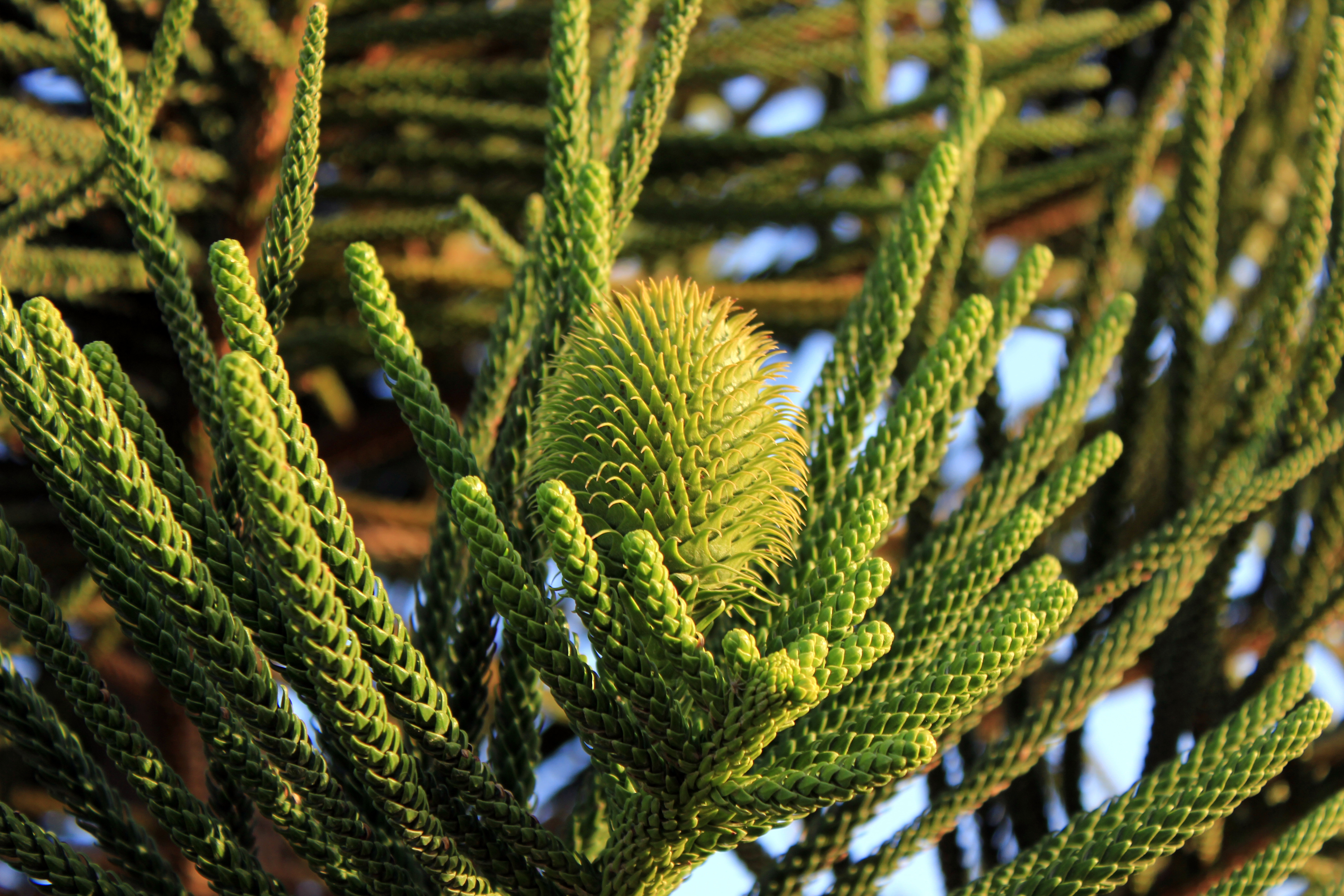 IMG_8713 Flora of Israel